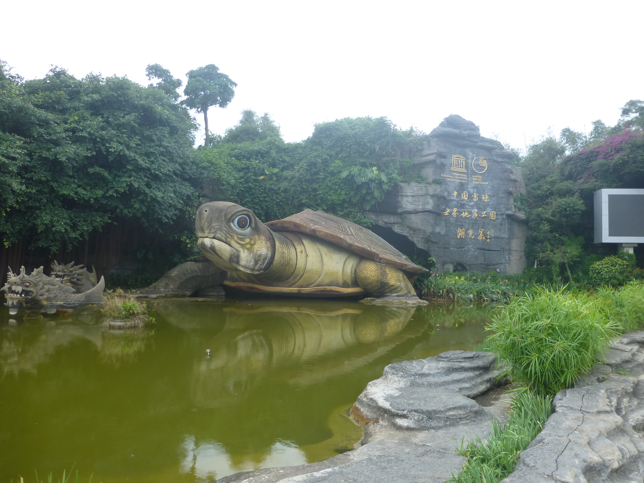 "Dragon Fish and Divine Turtle", a group of sculptures at the plaza outside Huguangyan Park (Huguang Town, Mazhang District, Zhanjiang)